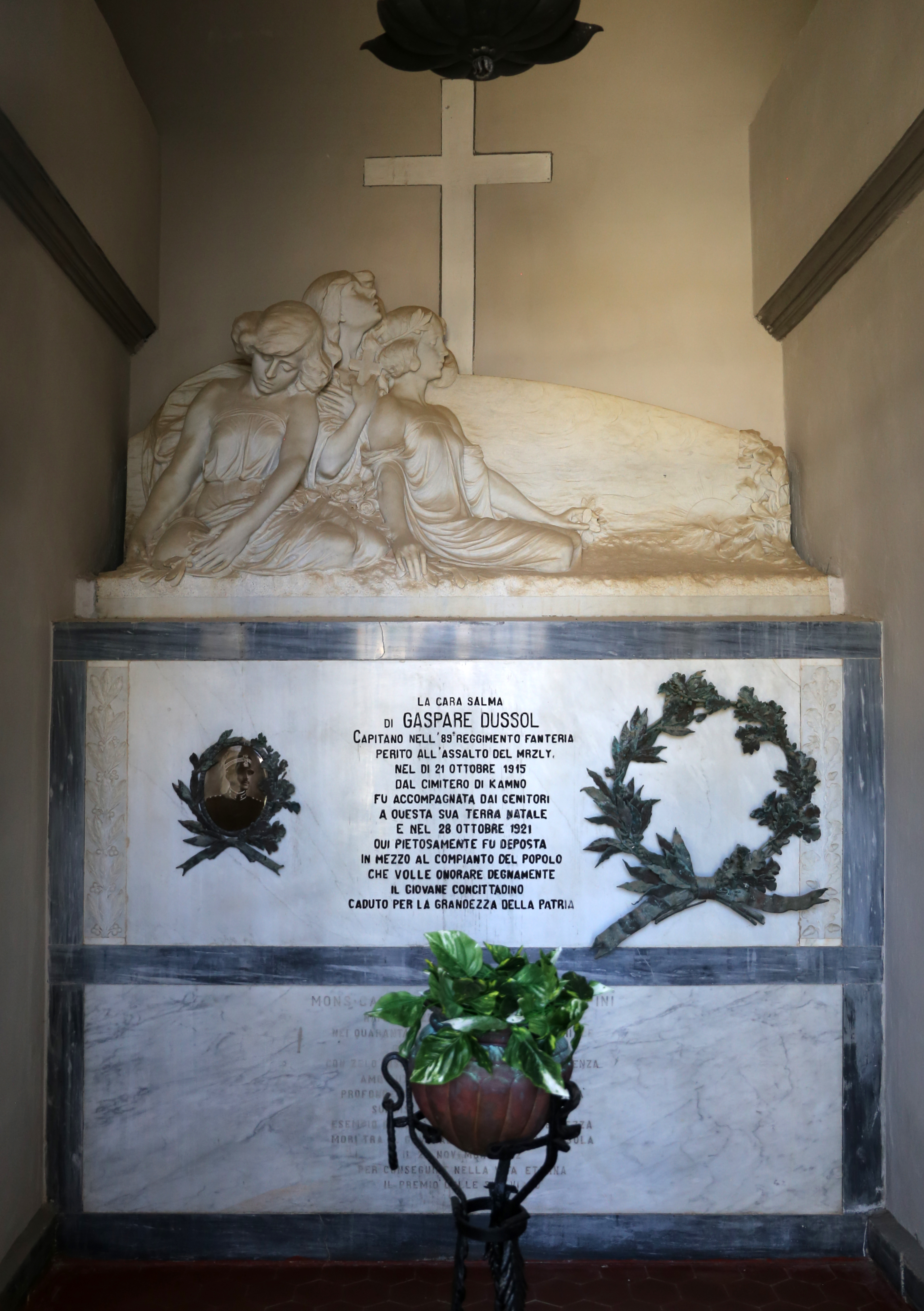 Marciana Marina